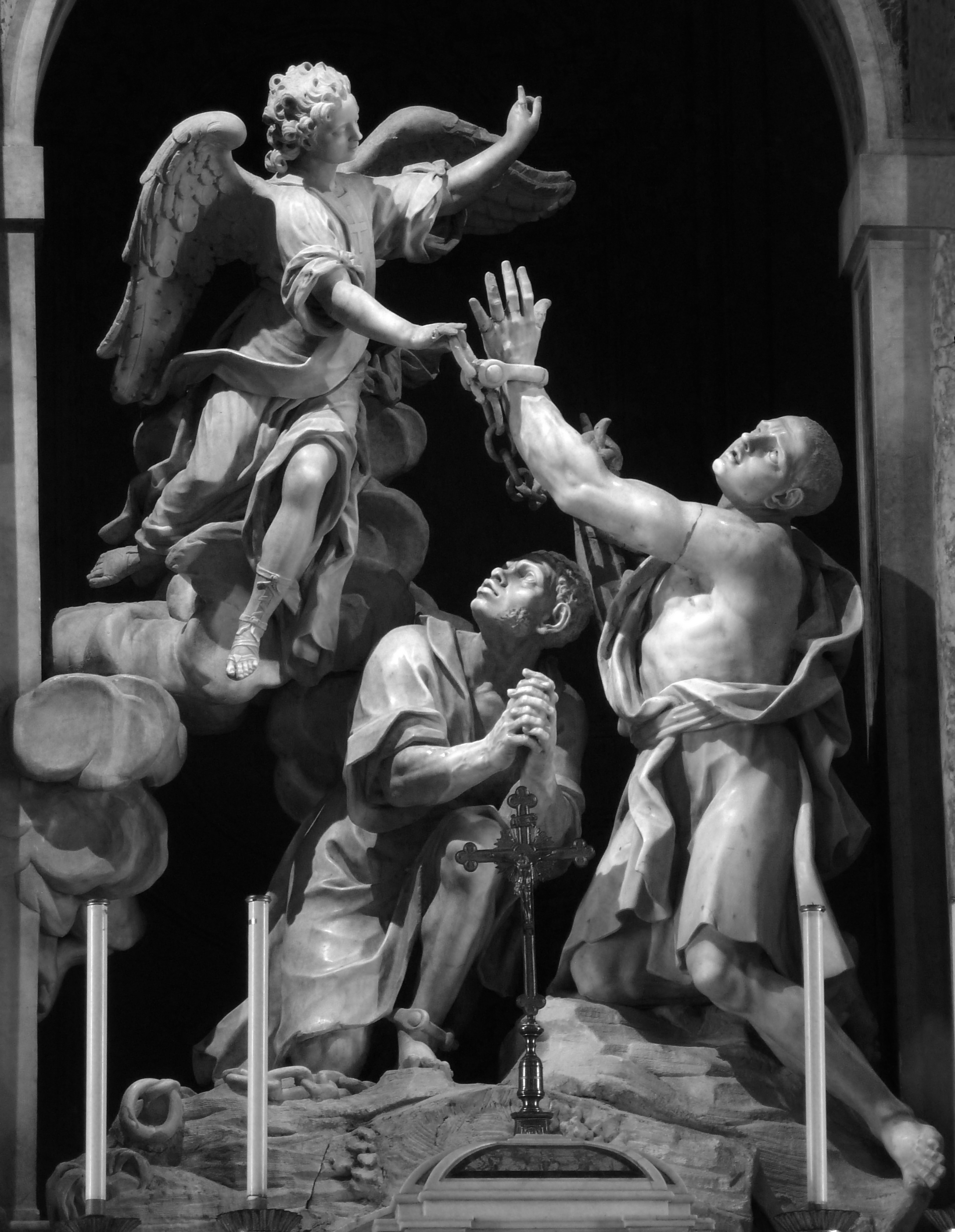 Gli schiavi liberati (Liberated slaves), work by Giovanni Baratta (1670 - 1747), altar of the church Chiesa di San Ferdinando, Livorno, Italy